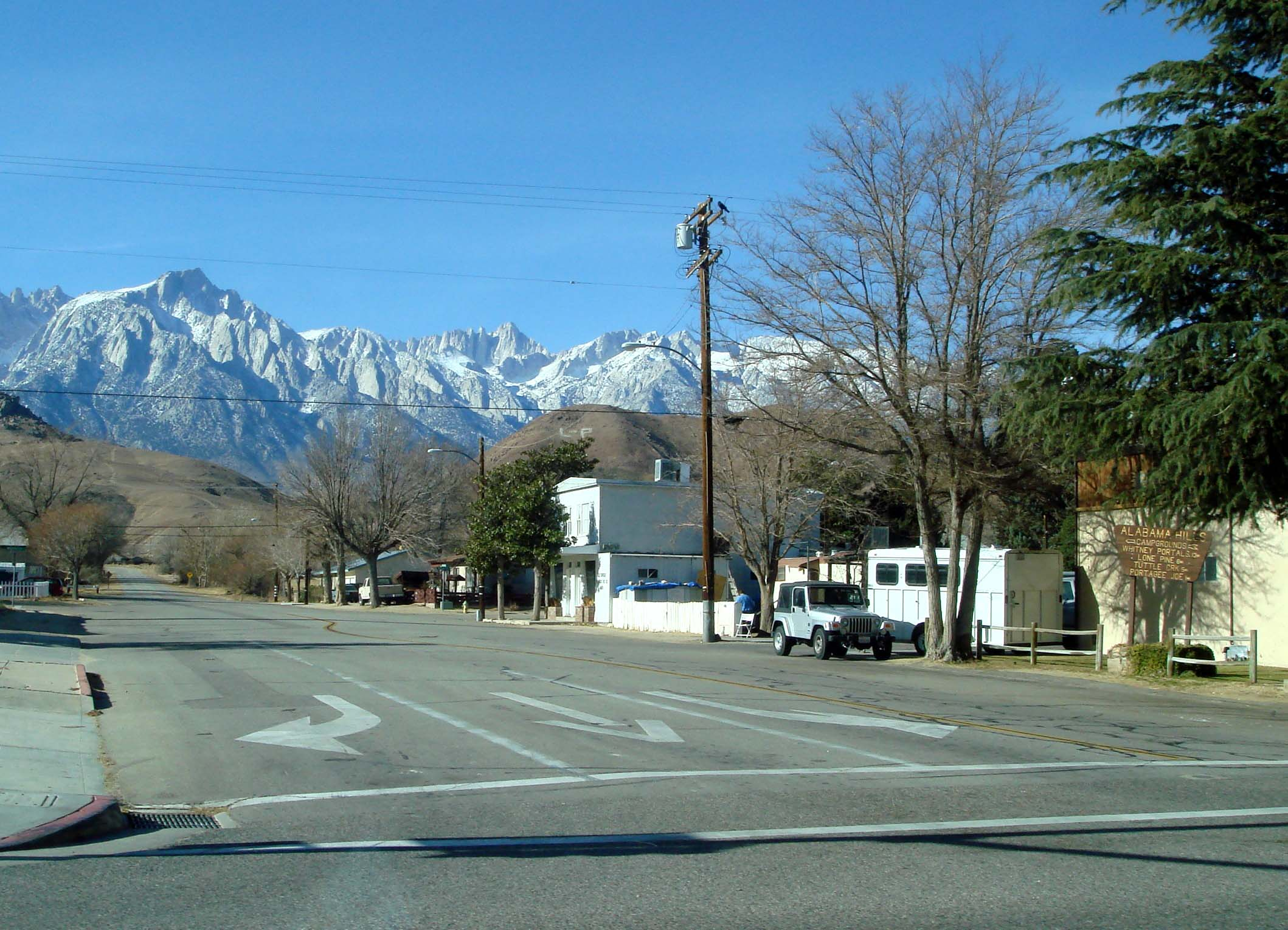 Lone Pine, California, is close to Mount Whitney (the peak just left of the Mountain Monogram, access via pictured Whitney Portal), as well as the scenic Alabama Hills